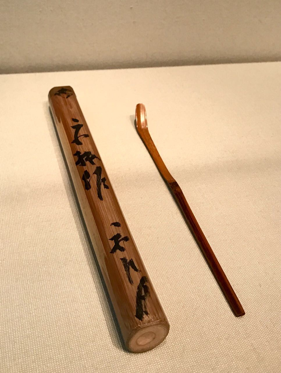 Tea scoop (chashaku) and signed container (tsutsu). Artist: Sen Sosetsu (died 1652) Date: approx. 1600-1652 Materials: Bamboo Dimensions: L. 6 1/2 in, 16.5 cm Credit Line: Lloyd Cotsen Japanese Bamboo Basket Collection Department: Japanese Art Collection: Decorative Arts Object Number: 2006.3.589